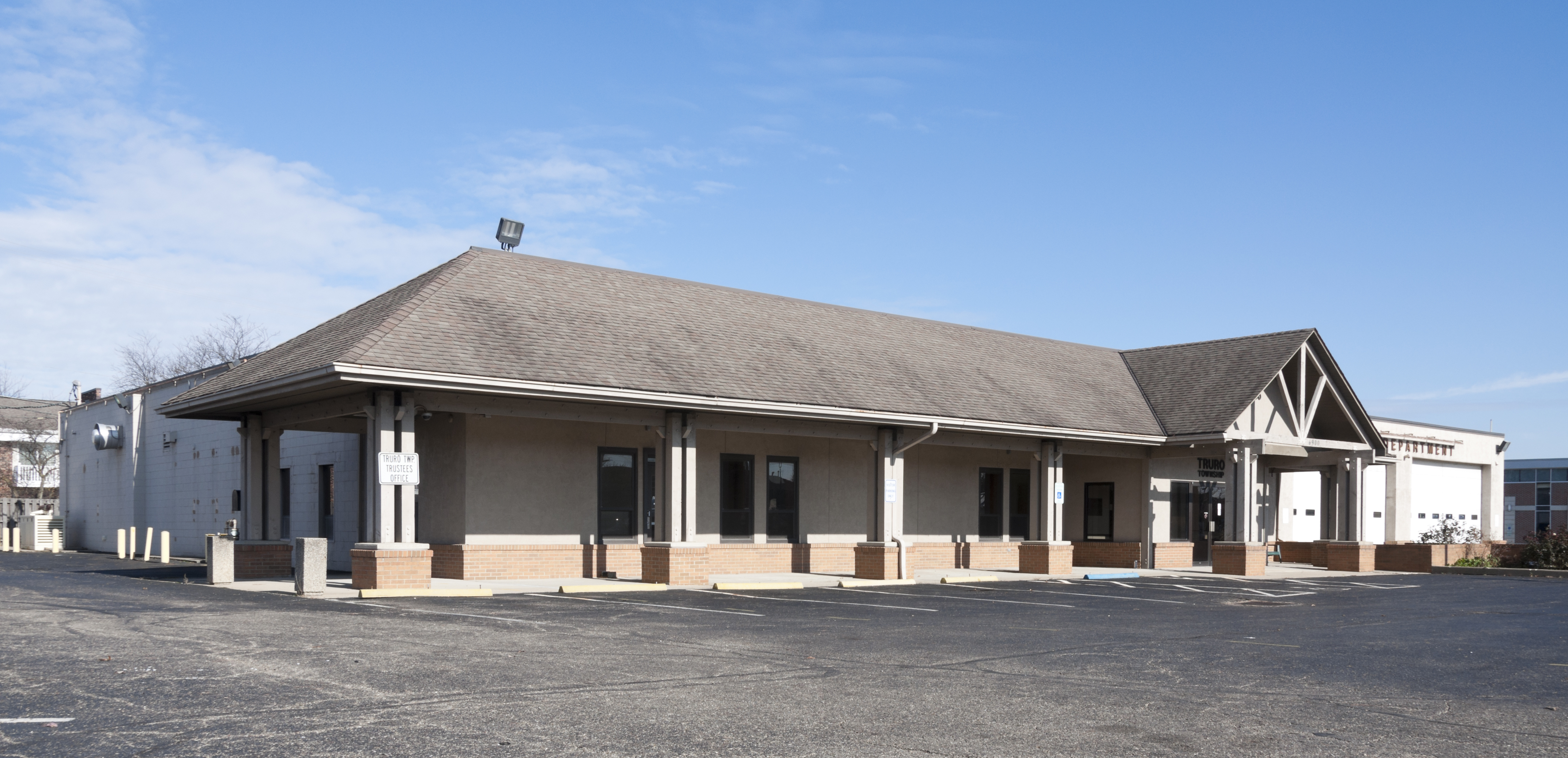 The Truro Township Townhall & Fire Department in Truro Township, Franklin County, Ohio. Truro Township services are merged in the same building as the only fire department in the township. The building is located on U.S. Route 40